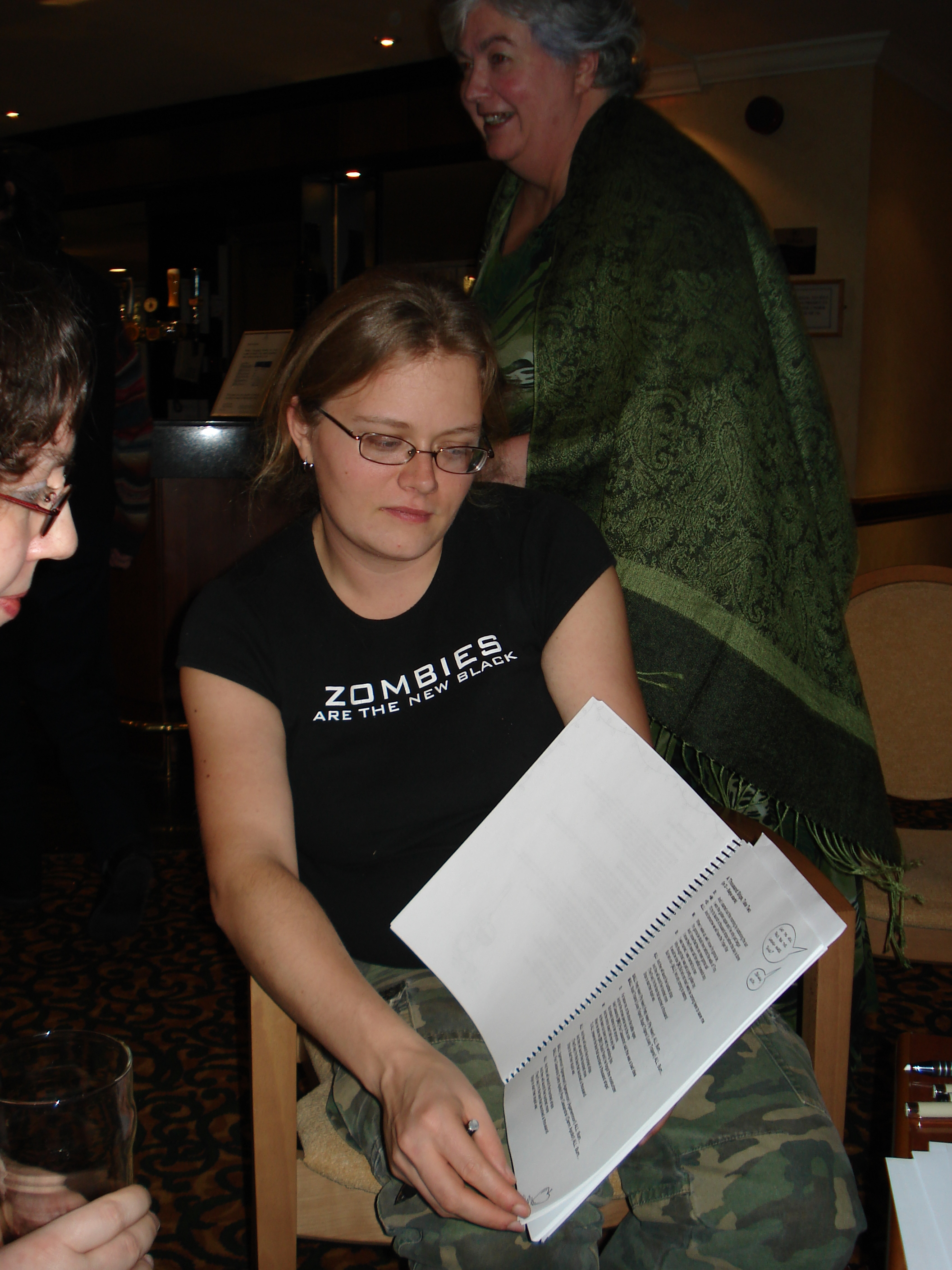 Author and musician Seanan Mcguire at Dezenovecon